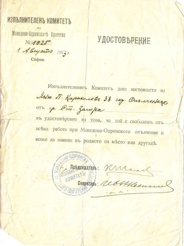 Executive Committee of the Macedonian Brotherhoods Document signed by Kosta Shahov and Ivan Nelchinov, 1 August 1913